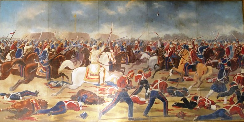 Saradar Sham Singh Attariwala rallying and then leading the Sikh Khalsa Army at Sobraon